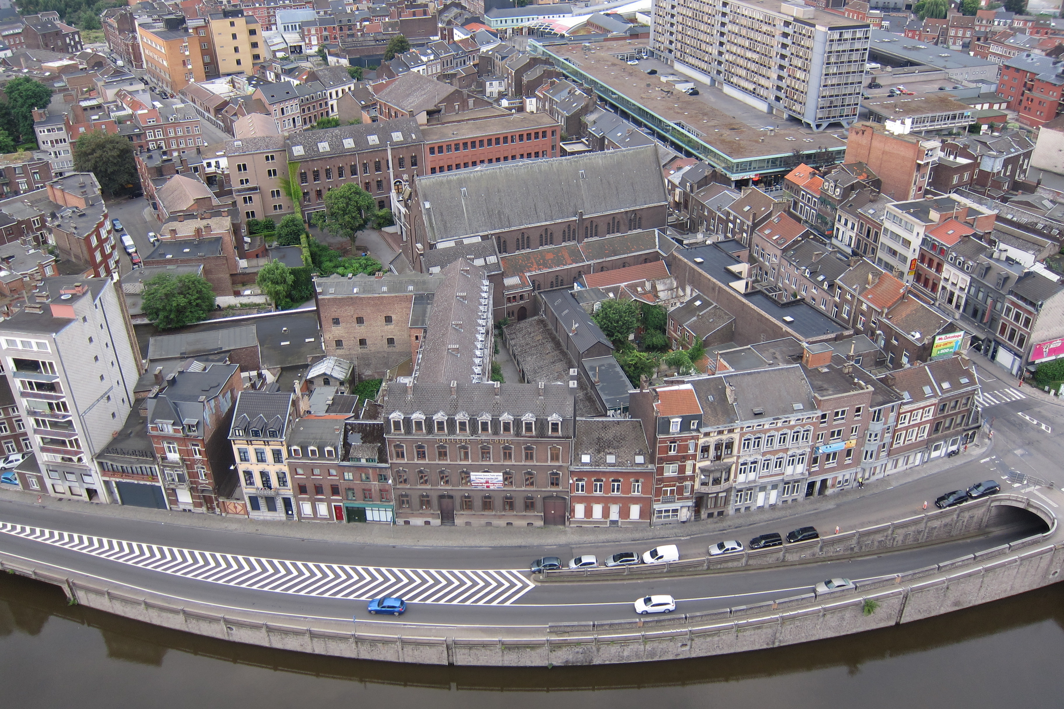 The Quai de Longdoz seen from the Tour Simenon